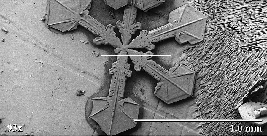 Single frame of Image:LT-SEM snow crystal magnification series-3.jpg to use for thumbnail purposes (because the other image is so tall).